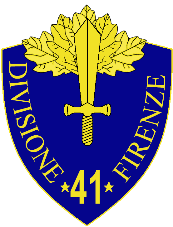 41a Divisione Fanteria Firenze insignia, Regio Esercito, Italy, WWII